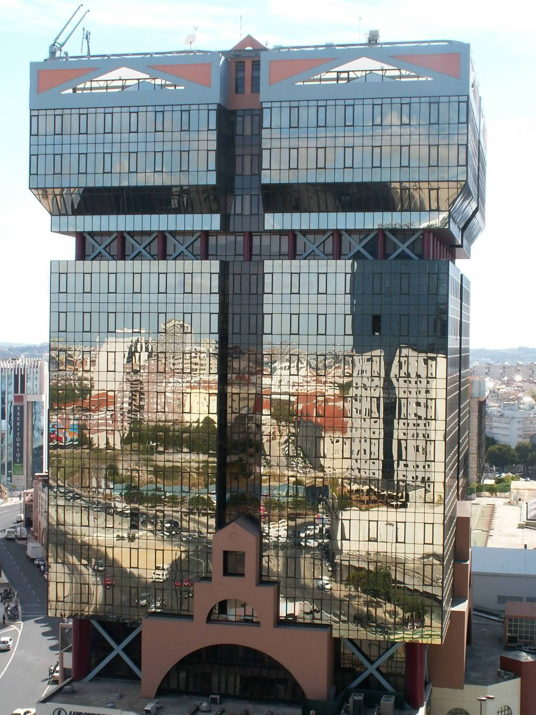 Amoreiras towers where talkdesk offices are located in Lisbon